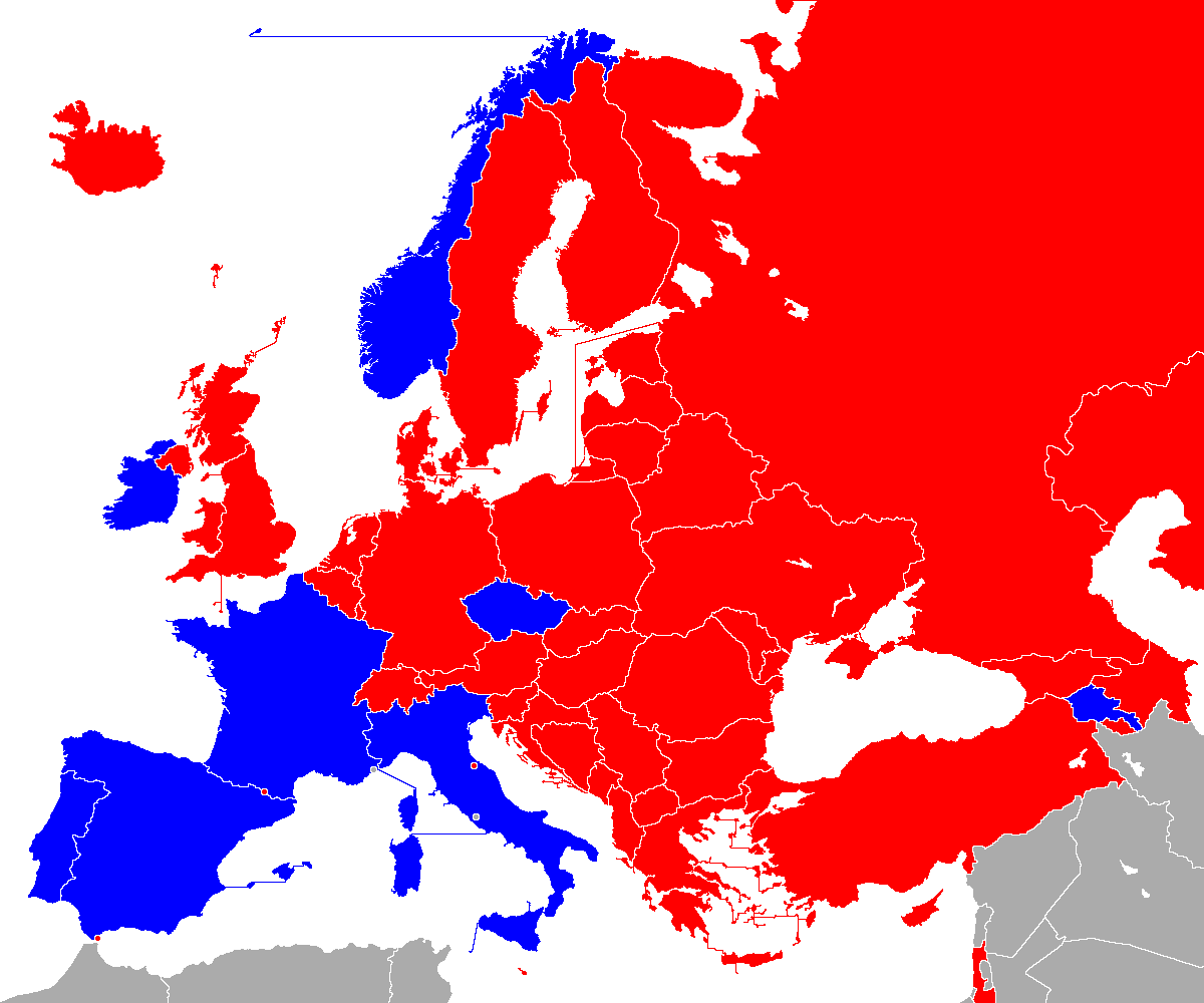 2019 EURO U-19 Qualifiers